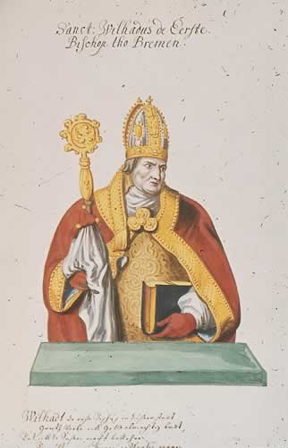 St. Willehadus, missionary of the Frisians and Saxons, first bishop of Bremen, woodcut of the Late Middle Ages